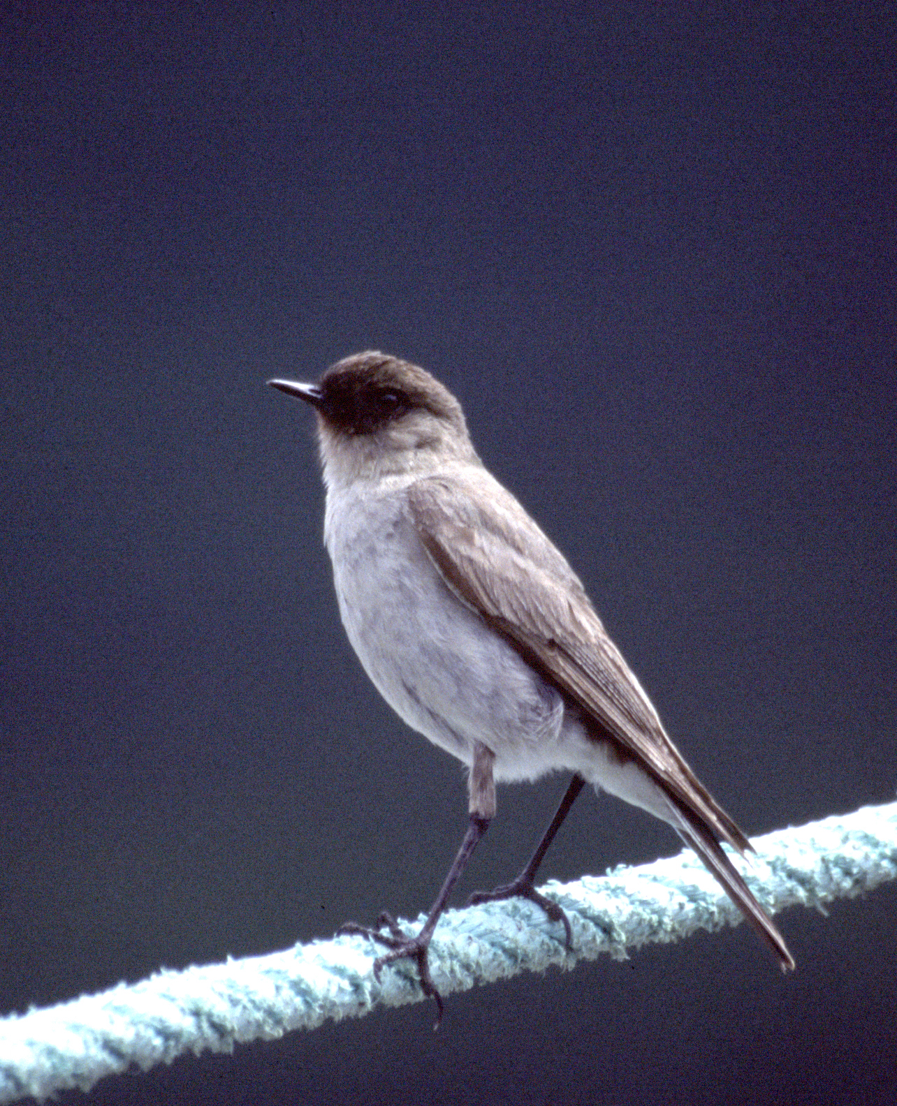 A Dark-faced Ground-tyrant near Lago Escondido, Tierra del Fuego, Argentina.